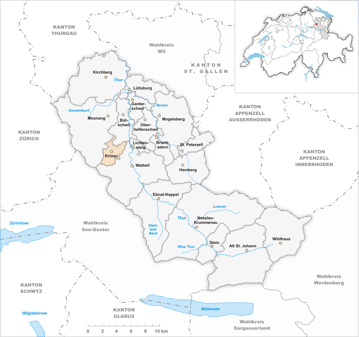 Municipality Krinau